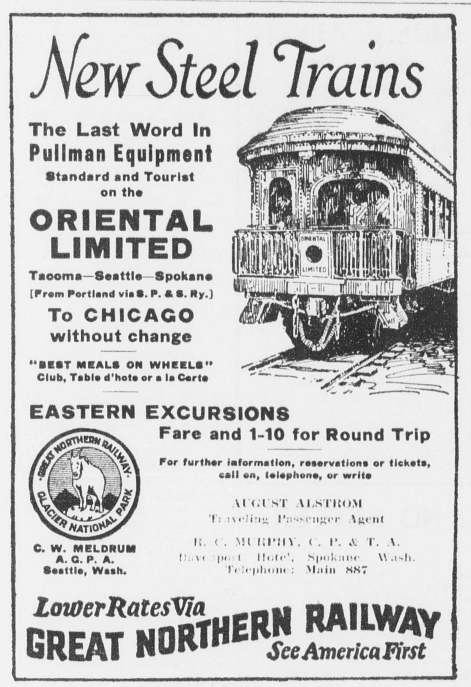 Newspaper ad from the Pullman herald. (Pullman, W.T. [Wash.]), 16 June 1922. Promoting the Great Northern Oriental Limited Train. Cropped from the PDF in the link shown, converted to greyscale with GIMP.